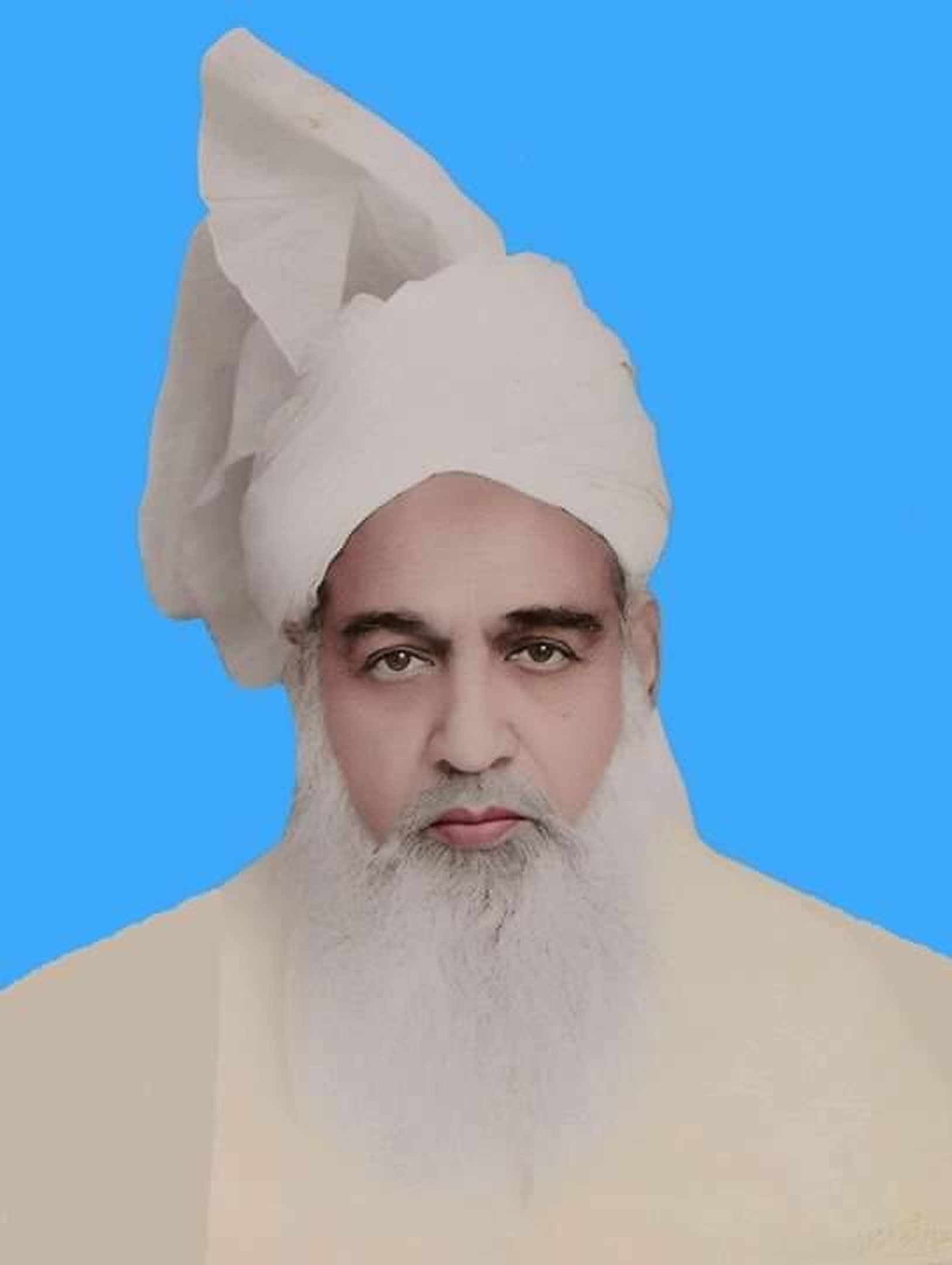 Potfolio of Hazrat Shaikh ul Quran R.A